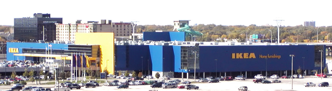 Bloomington IKEA taken by William Wesen 10/01/2006